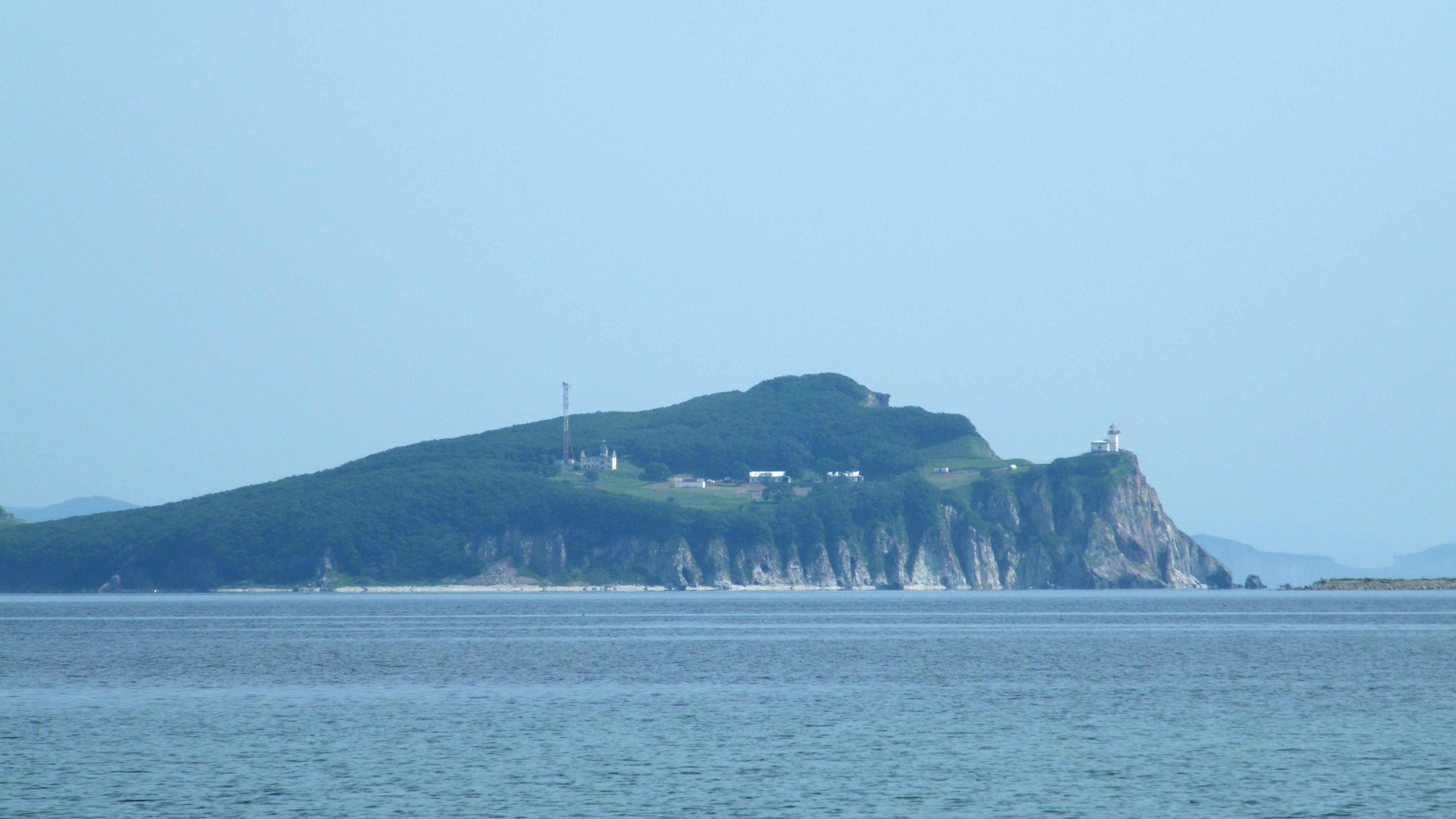 Маяк Балюзек, вид с поселка Норд-Ост